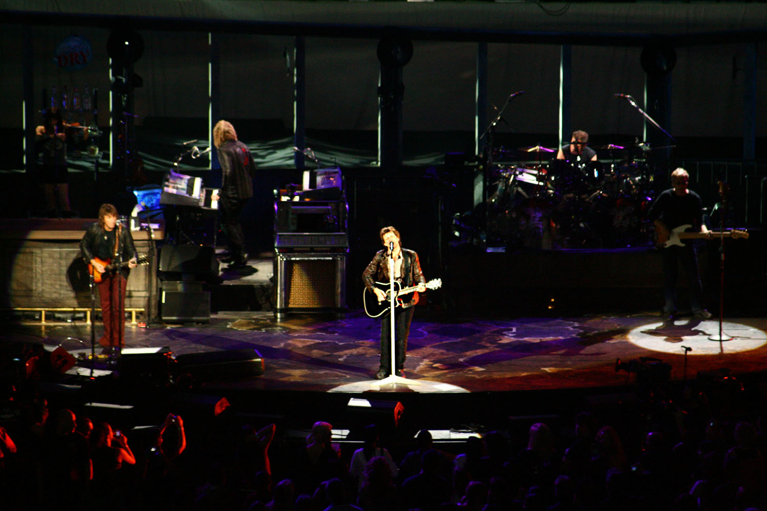 Music band Bon Jovi performing in 2007